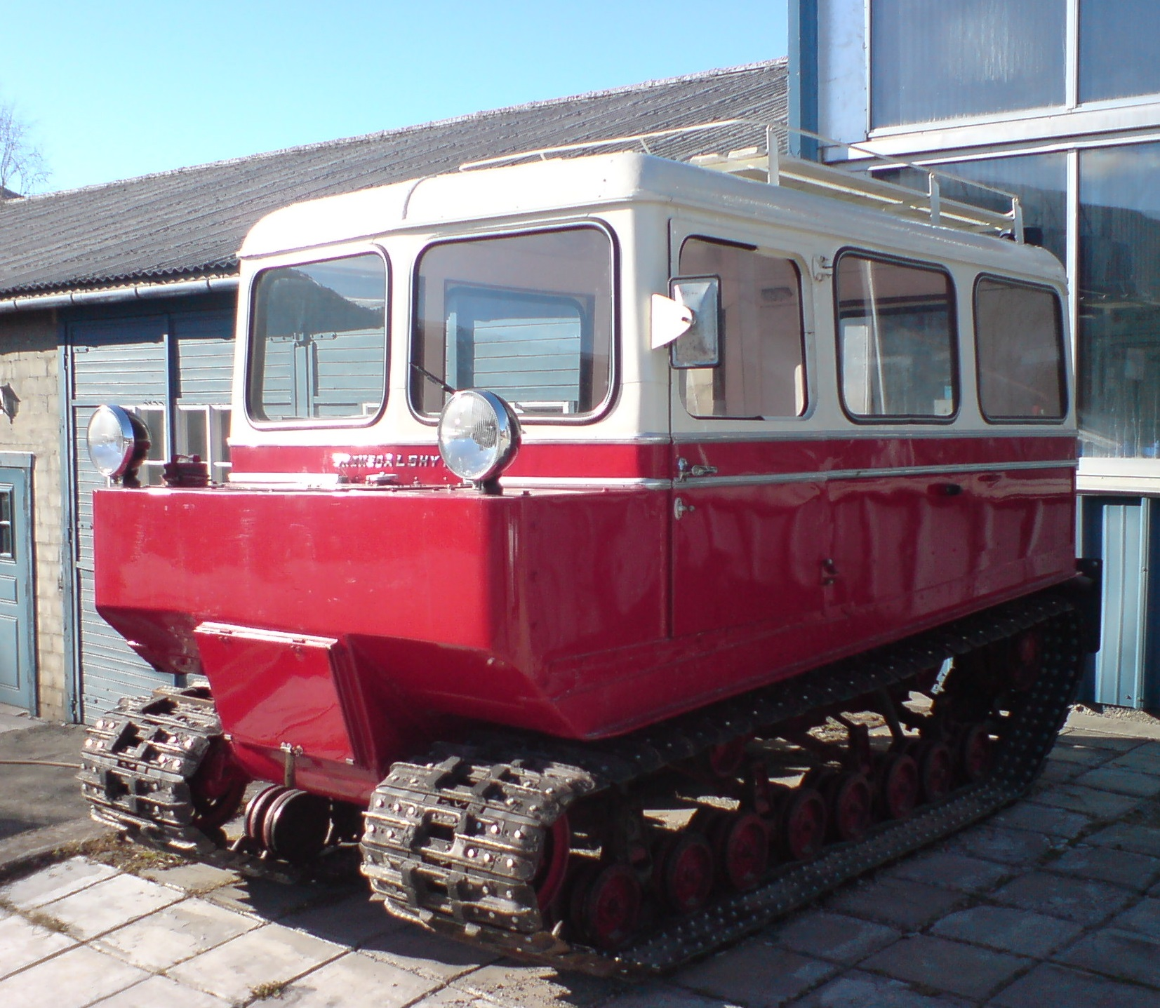 Weasel used at Grimsdalshytta